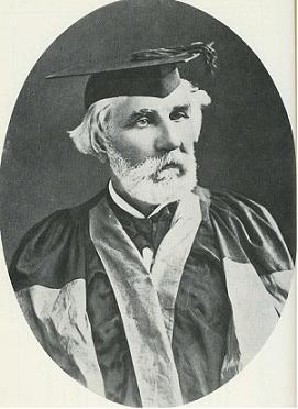 Photograph of Turgenev after receiving his Honorary Doctorate in Oxford in 1879